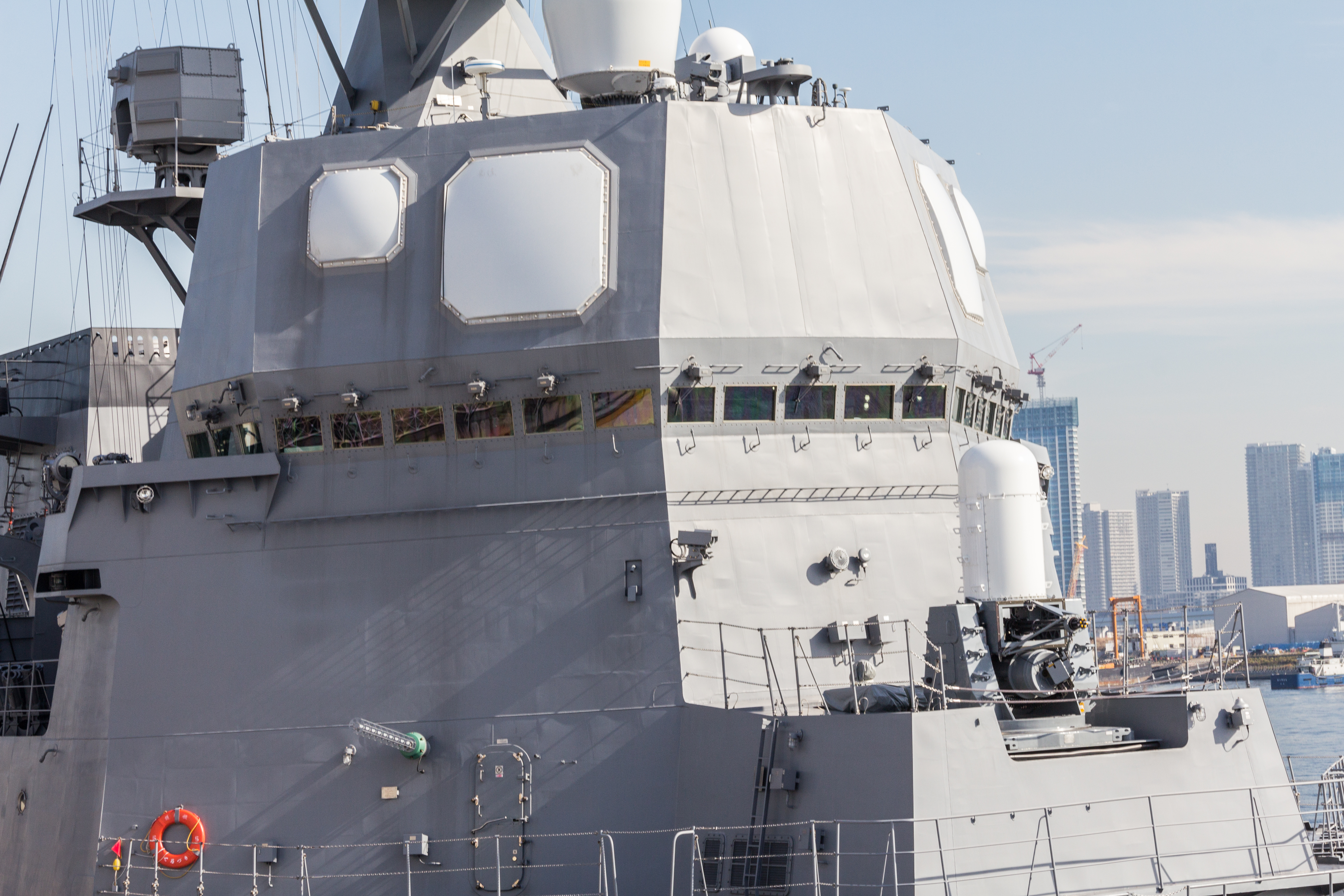 Bridge of JDS DD-116 Teruzuki at Harumi-pier, Tokyo (2013 Dec 1) Canon EOS 60D